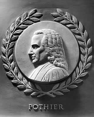 French jurist Robert Joseph Pothier (1699-1772) marble bas-relief, one of 23 reliefs of great historical lawgivers in the chamber of the U.S. House of Representatives in the United States Capitol. Sculpted by Joseph Kiselewski in 1950. Diameter 28 inches.